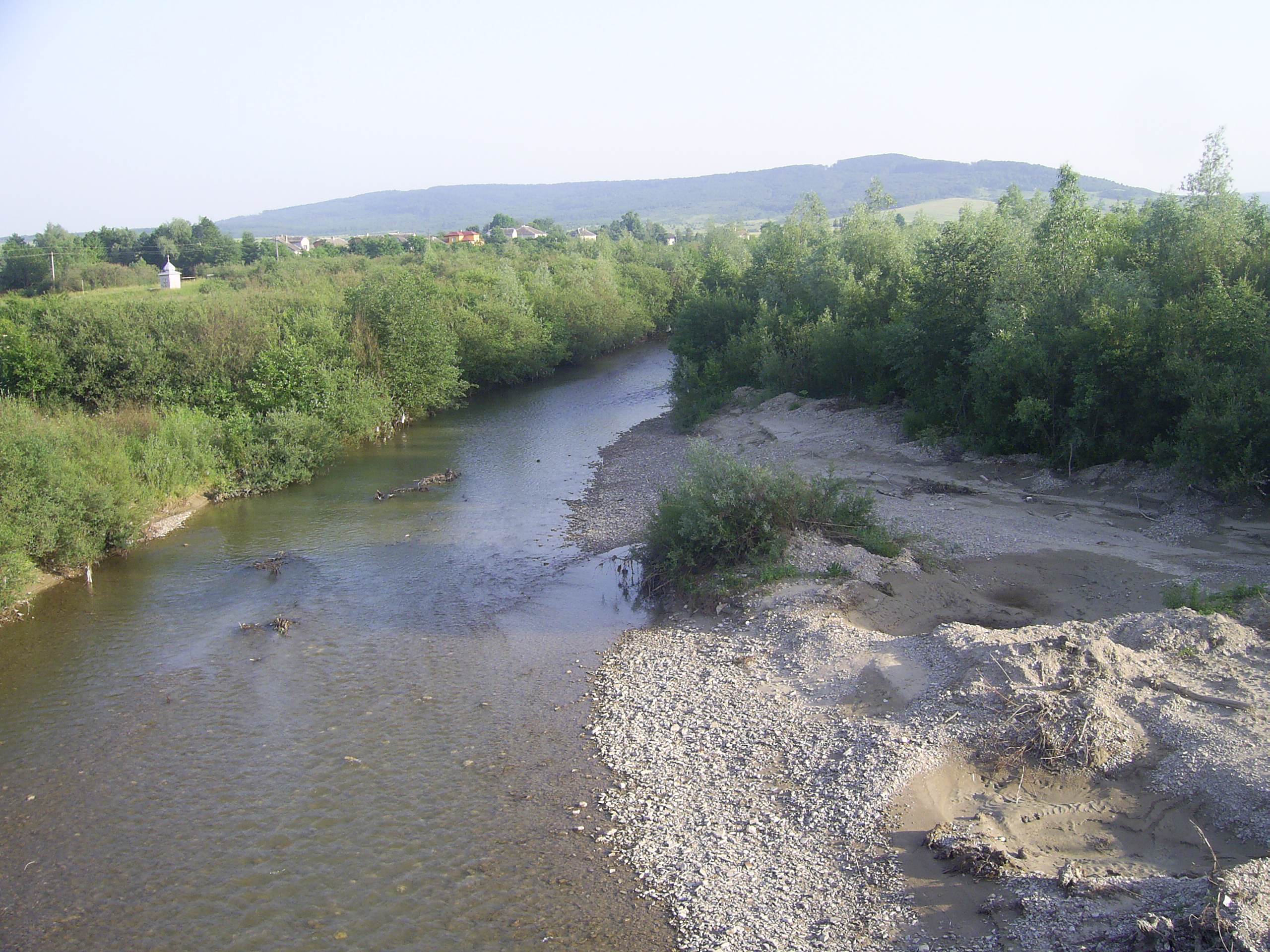 Wyrwa - river